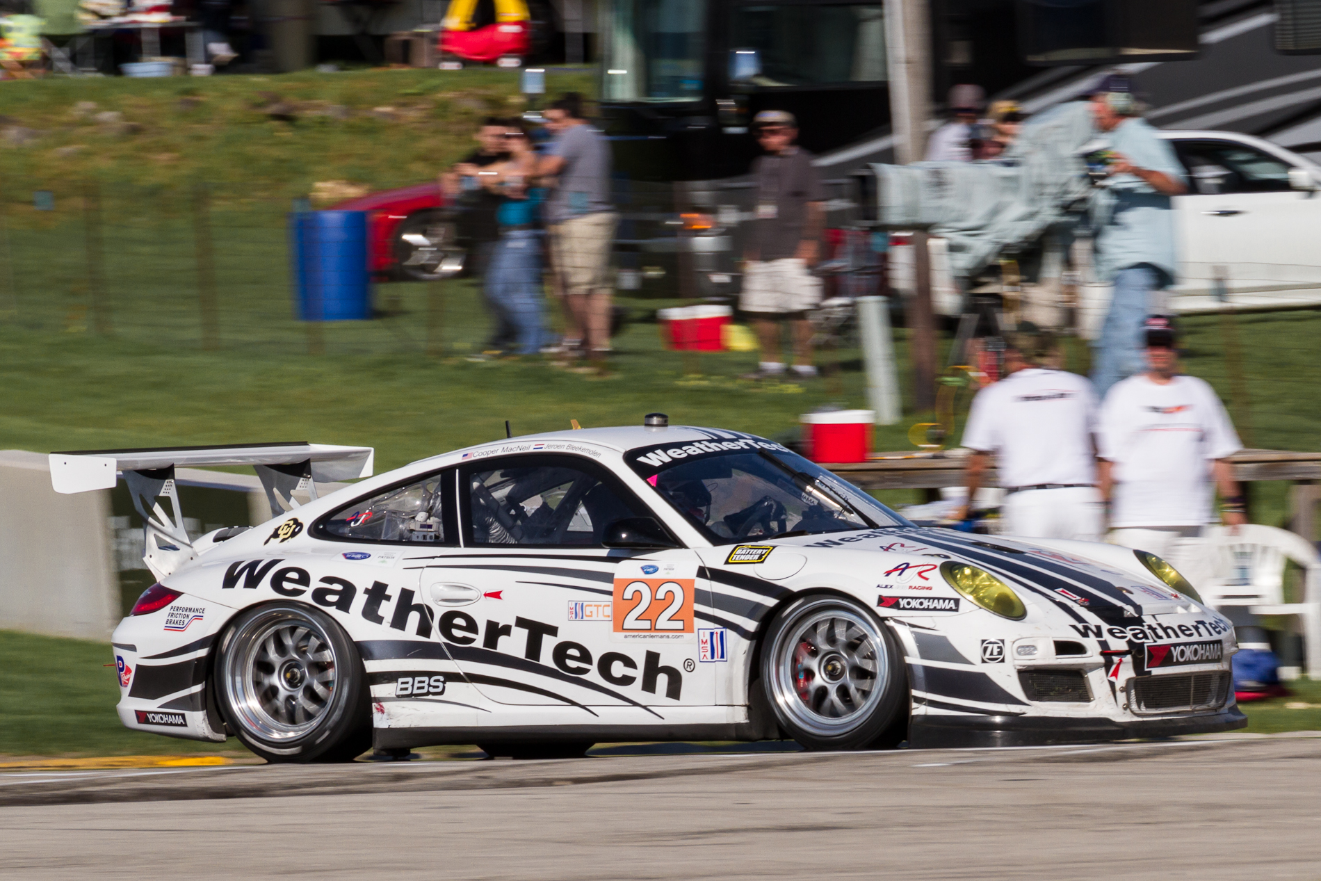 Cooper MacNeil in the Alex Job Racing Porsche 997 GT3 Cup at the 2012 Road Race Showcase.